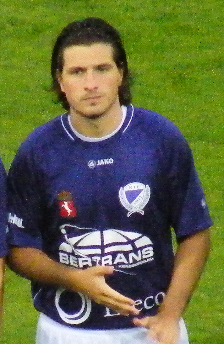 Béla Balogh Hungarian football player